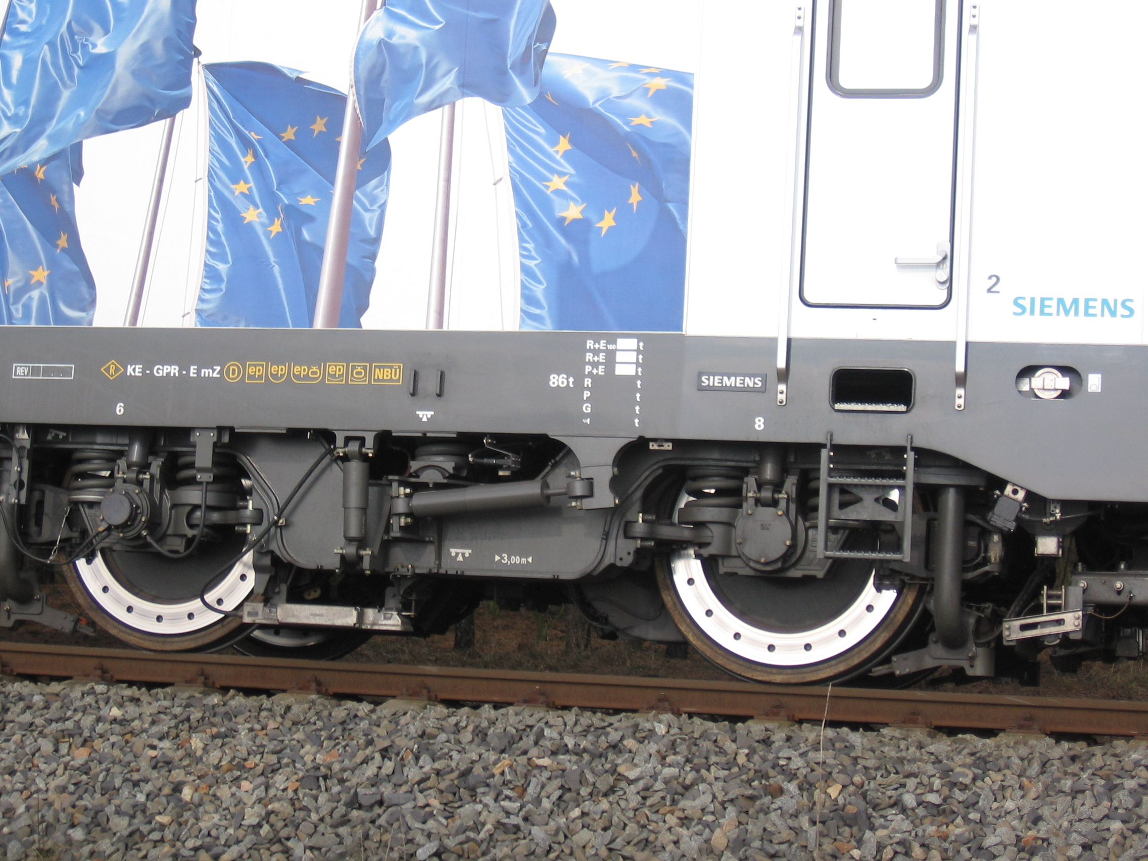 Bogie of Siemens 193.922 on Cerhenice little test circuit